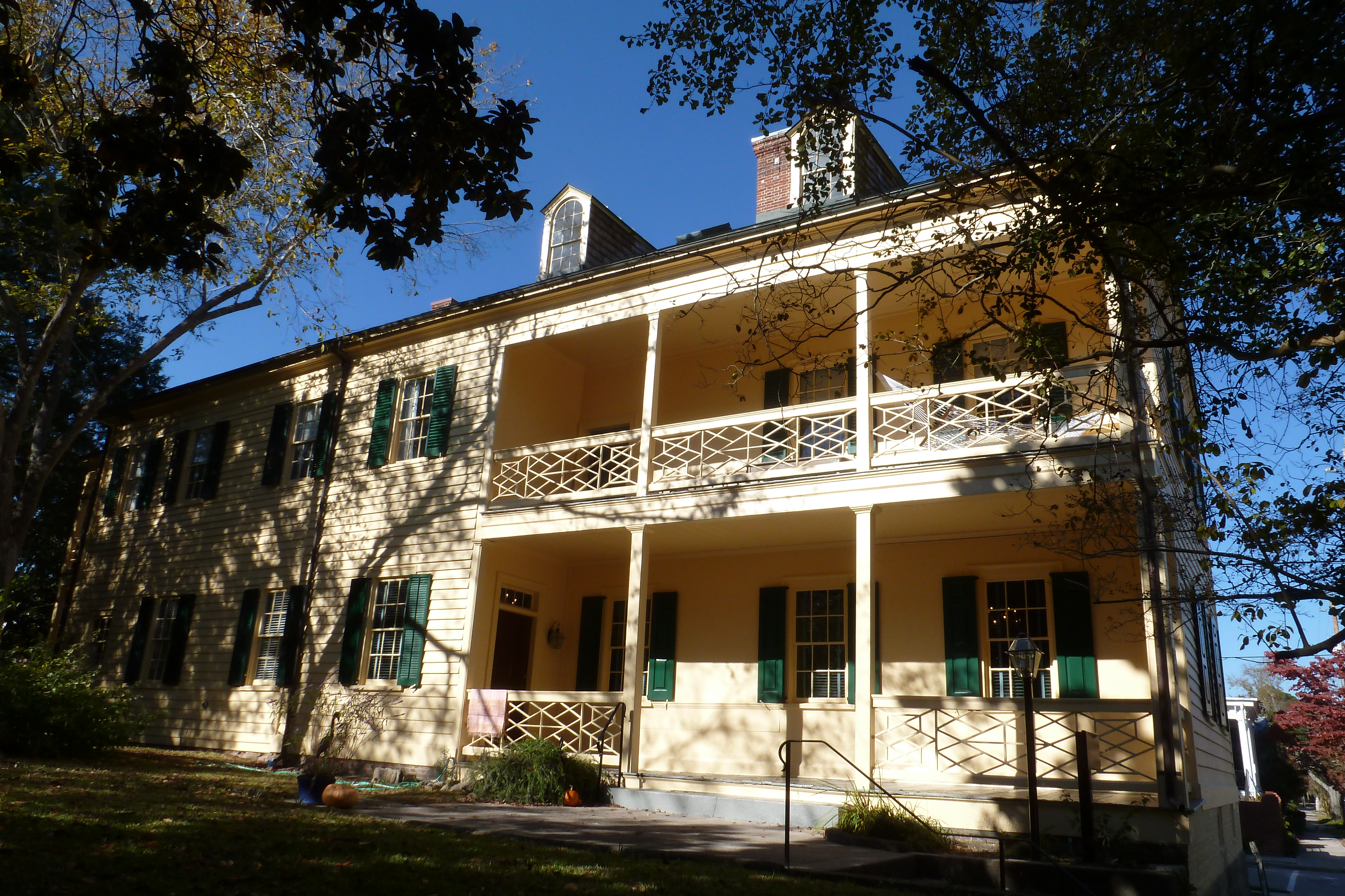 ca. 1785-1787. James Coor (political figure), first owner; William Gaston (lawyer, member of Congress, and judge in the North Carolina Supreme Court). Georgian Architecture. Owned by Tryon Palace and Gardens.